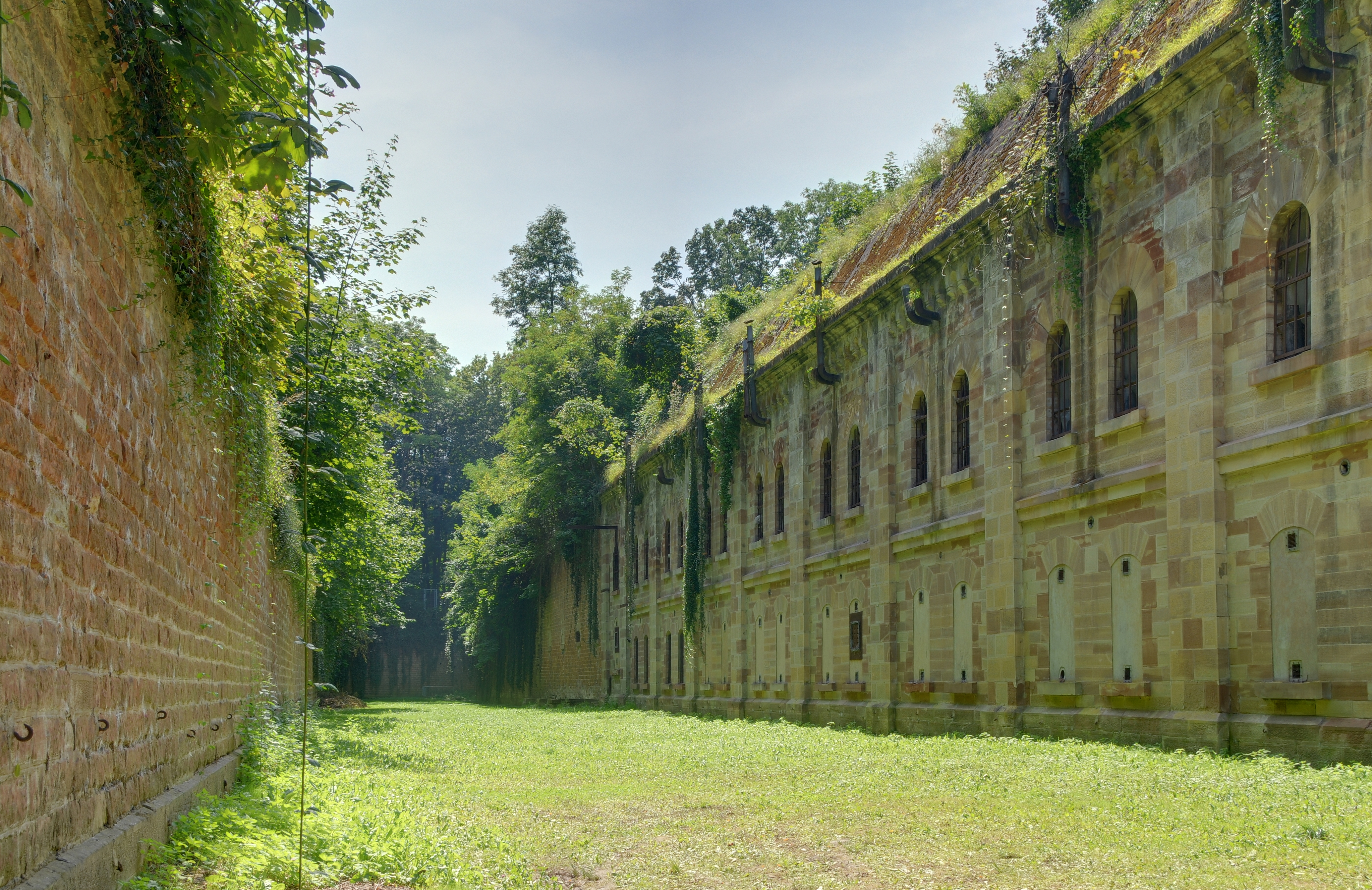 This photograph was taken with a Nikon D300 Fort Grossherzog von Baden (Fort Frère) : dans le fossé de gorge (HDR).